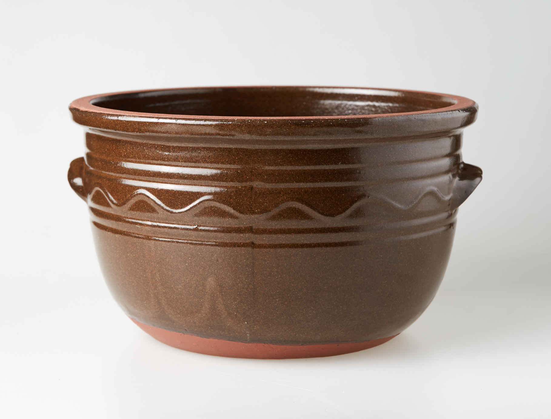 Siru (rice cake steamer)